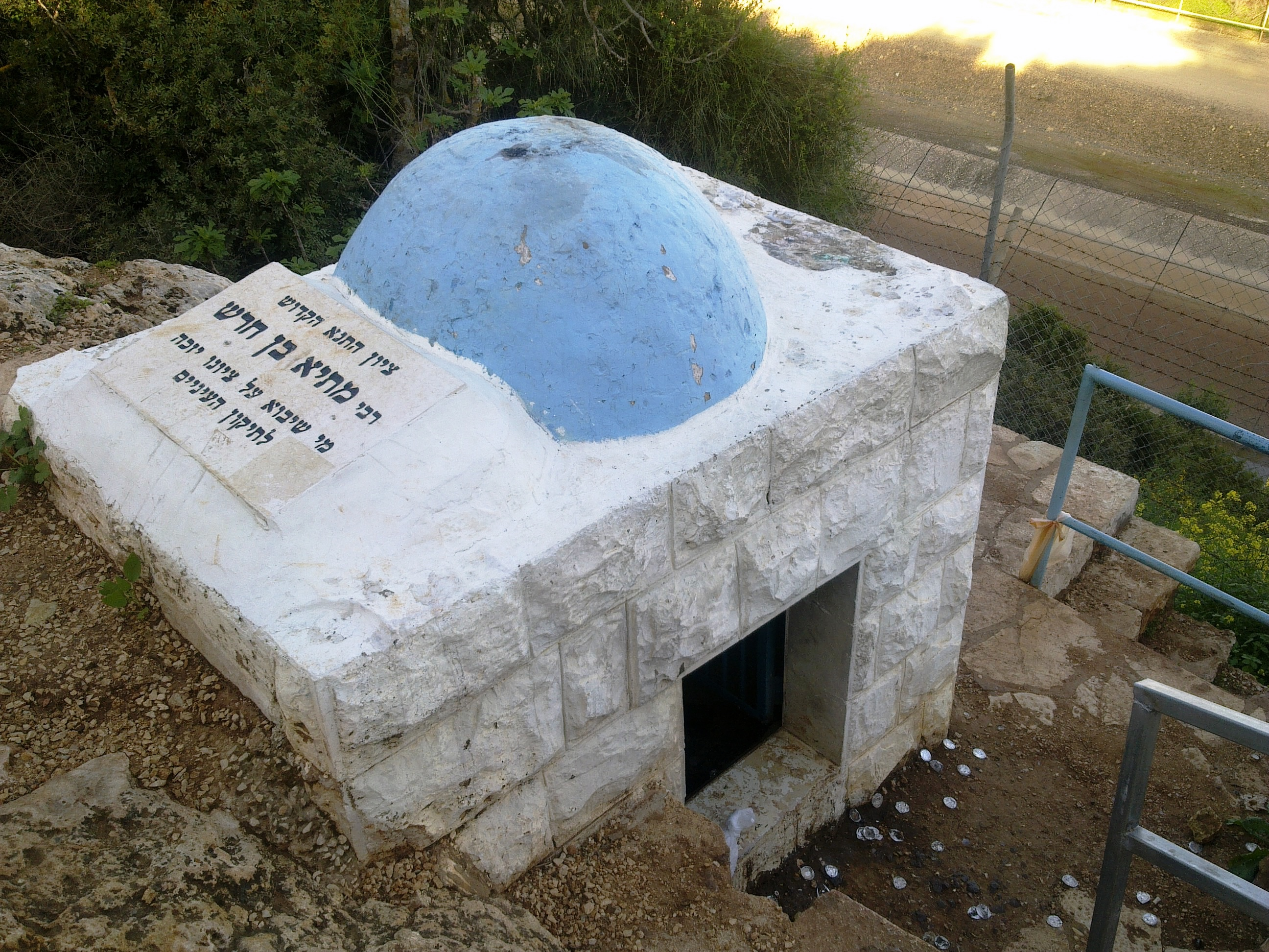 grave of rabby matya ben harash in eilabun קבר התנא מתיא בן חרש בעילבון